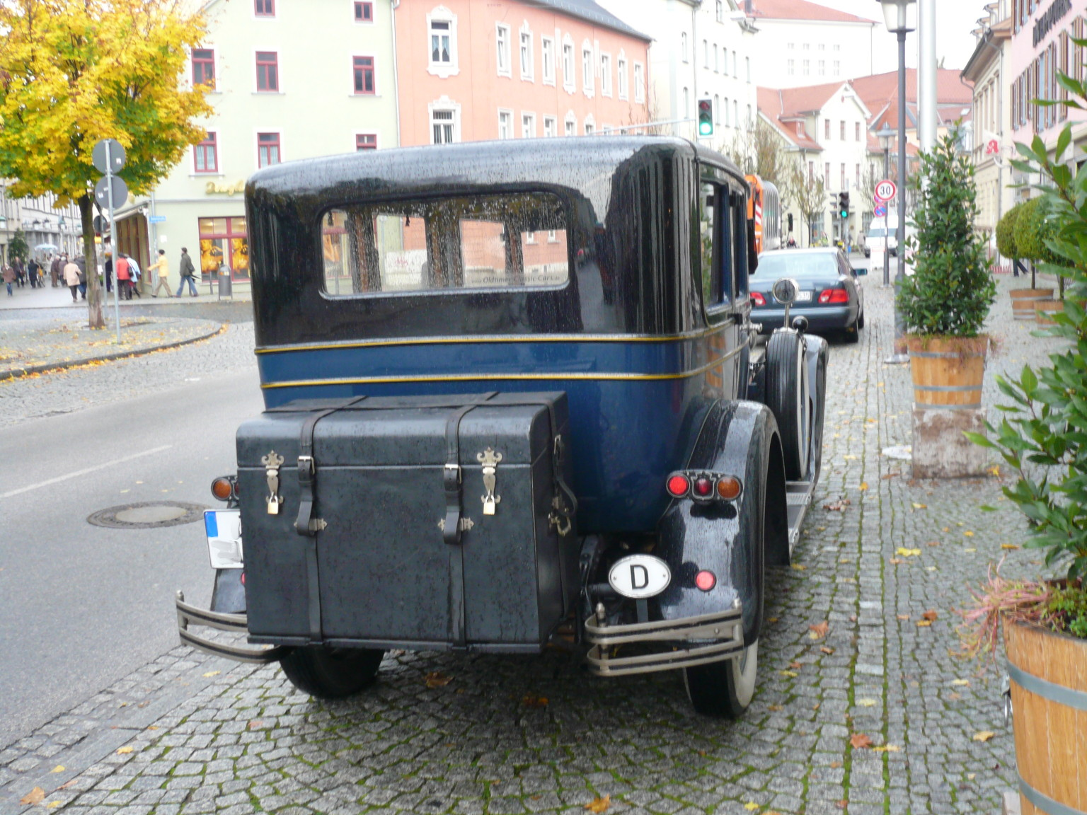 Cadillac Modell 314 -Sedan- Built: 1926 Backside seen at Weimar, Germany